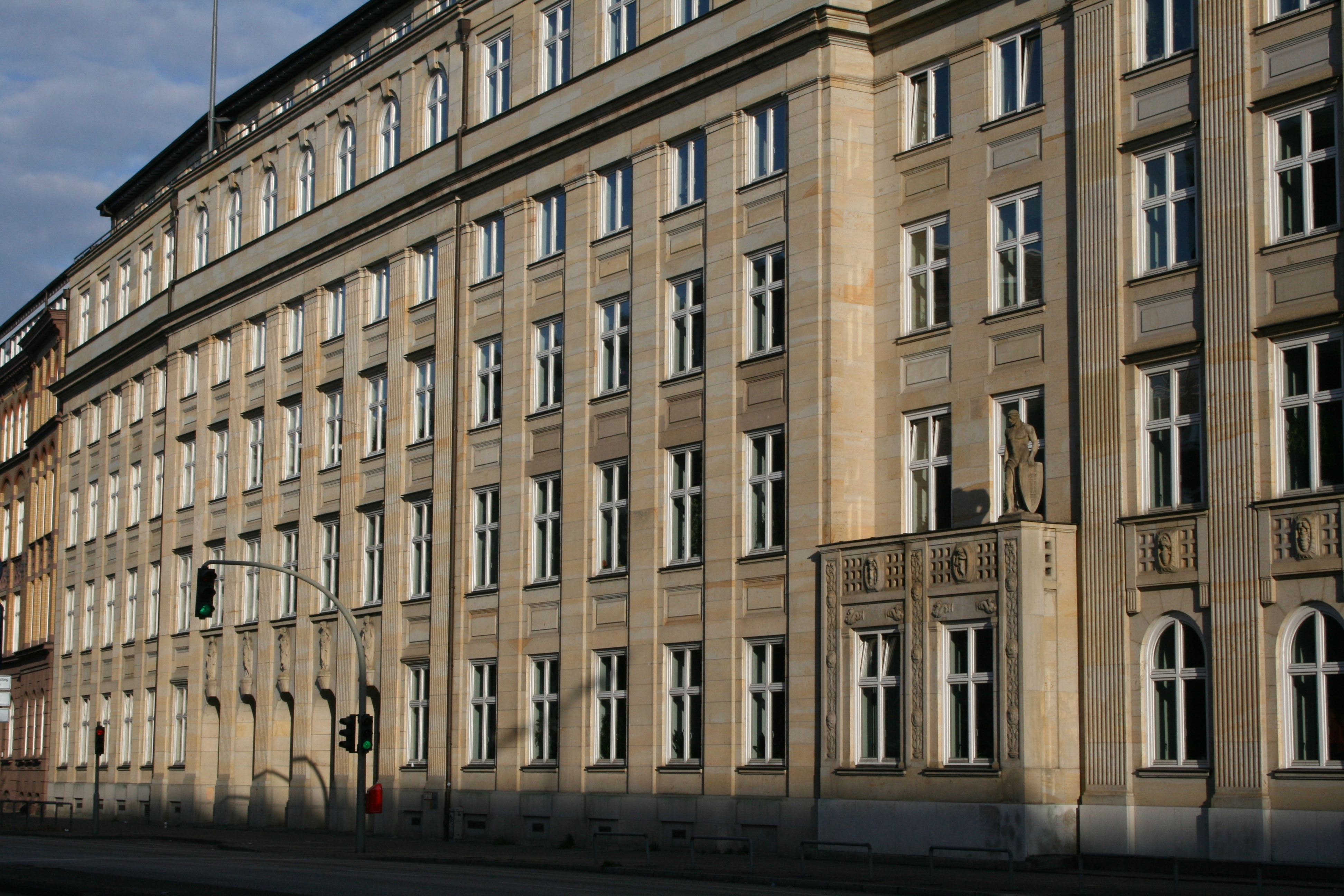 The Stadthaus Hamburg, view from Stadthausbrücke